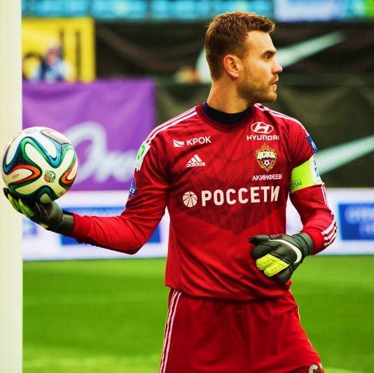 Igor Akinfeev